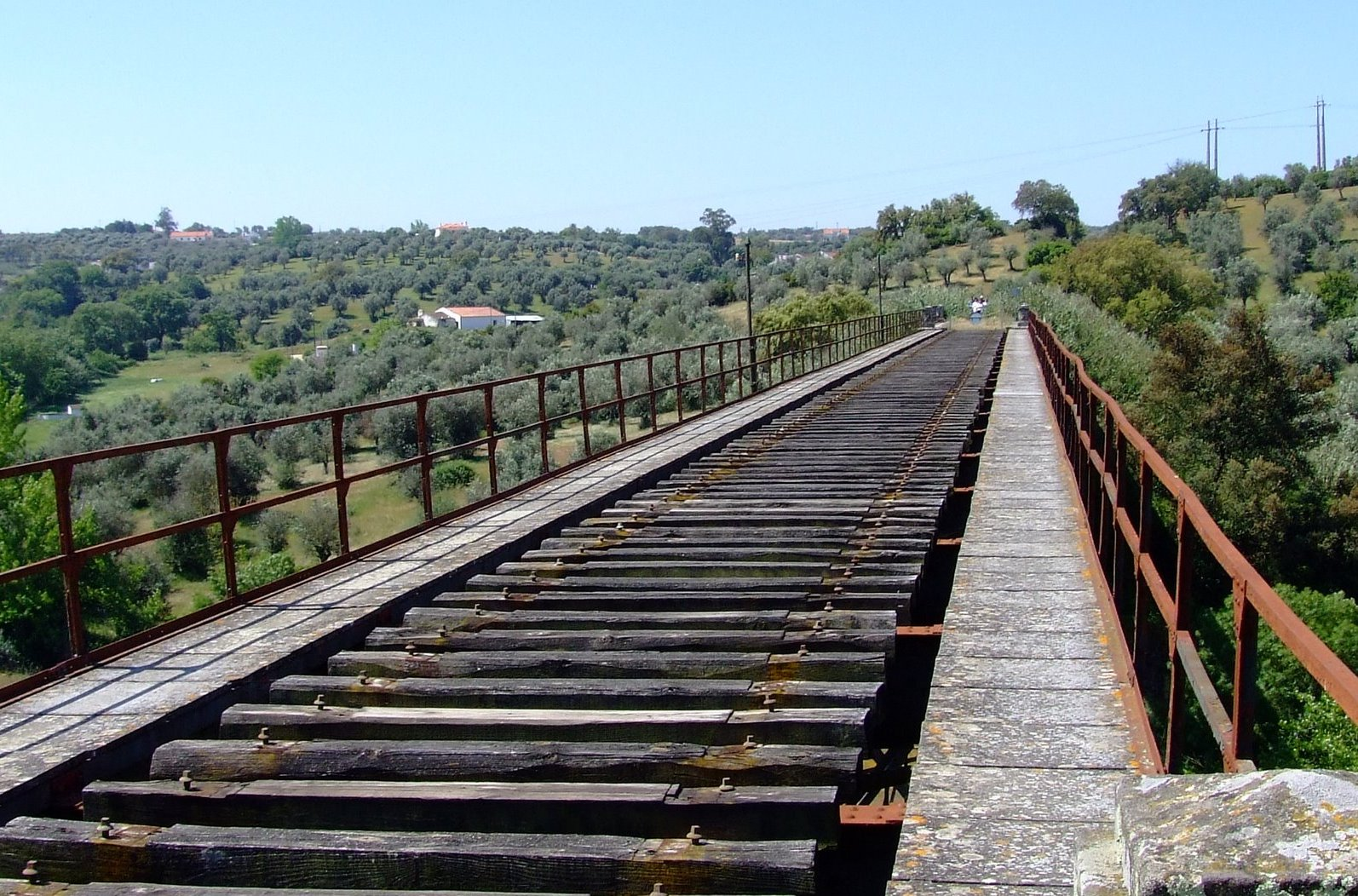 Railway Bridge near Torre da Gadanha